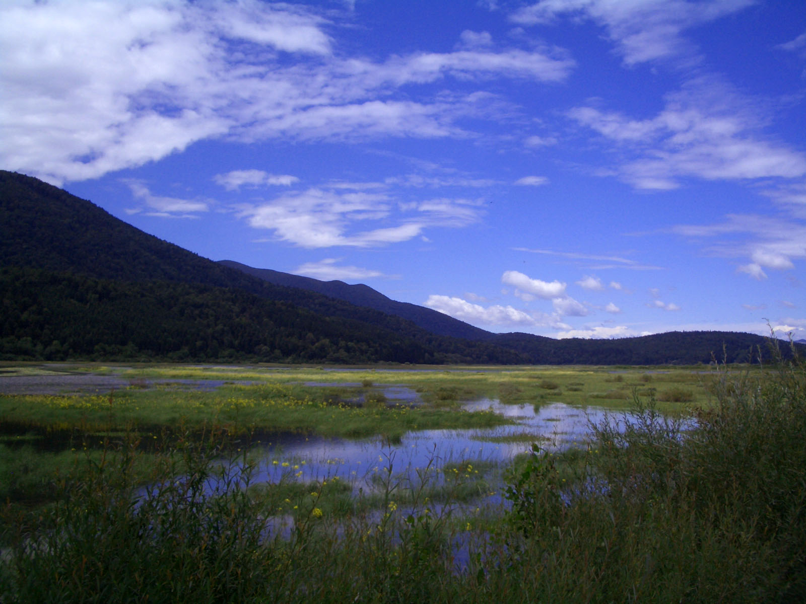 polje, “Cerknisko jezero” (jezero lake), near Otok, one of several poljes in the karstic area of Slovenia. Cerknisko jezero is a geological feature: “closed depression”. Its (abundant) water is solely drained through natural ponors (sinkholes in the ground, cracks and larger subterranean water ways). The polje is without water management. In wet seasons waters may rise and flood the terrain to become an intermittent lake.